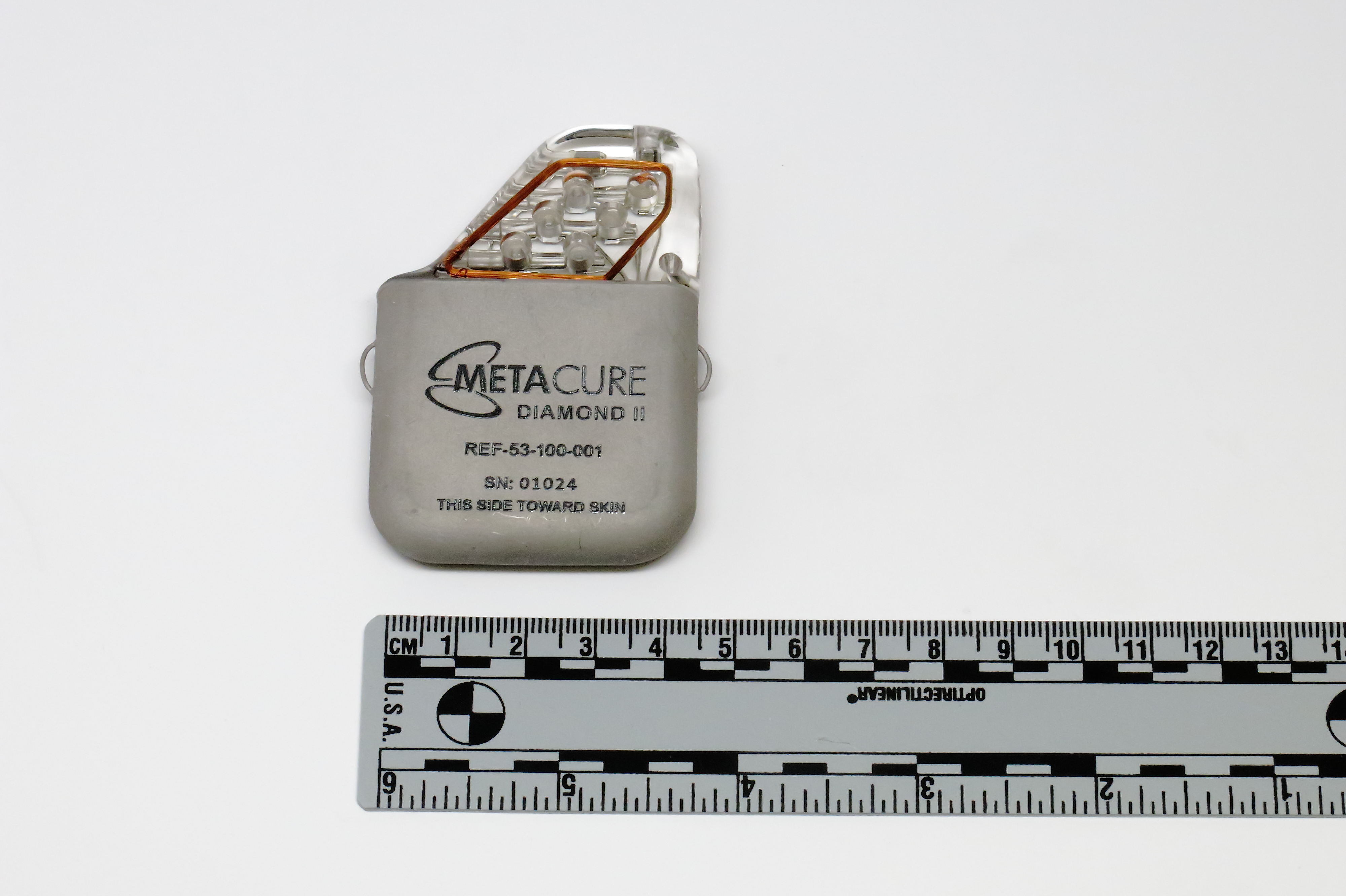 DIAMOND II Active Implantable Pulse Generator (IPG) by MetaCure, intended for the treatment of diabetes in obese patients.